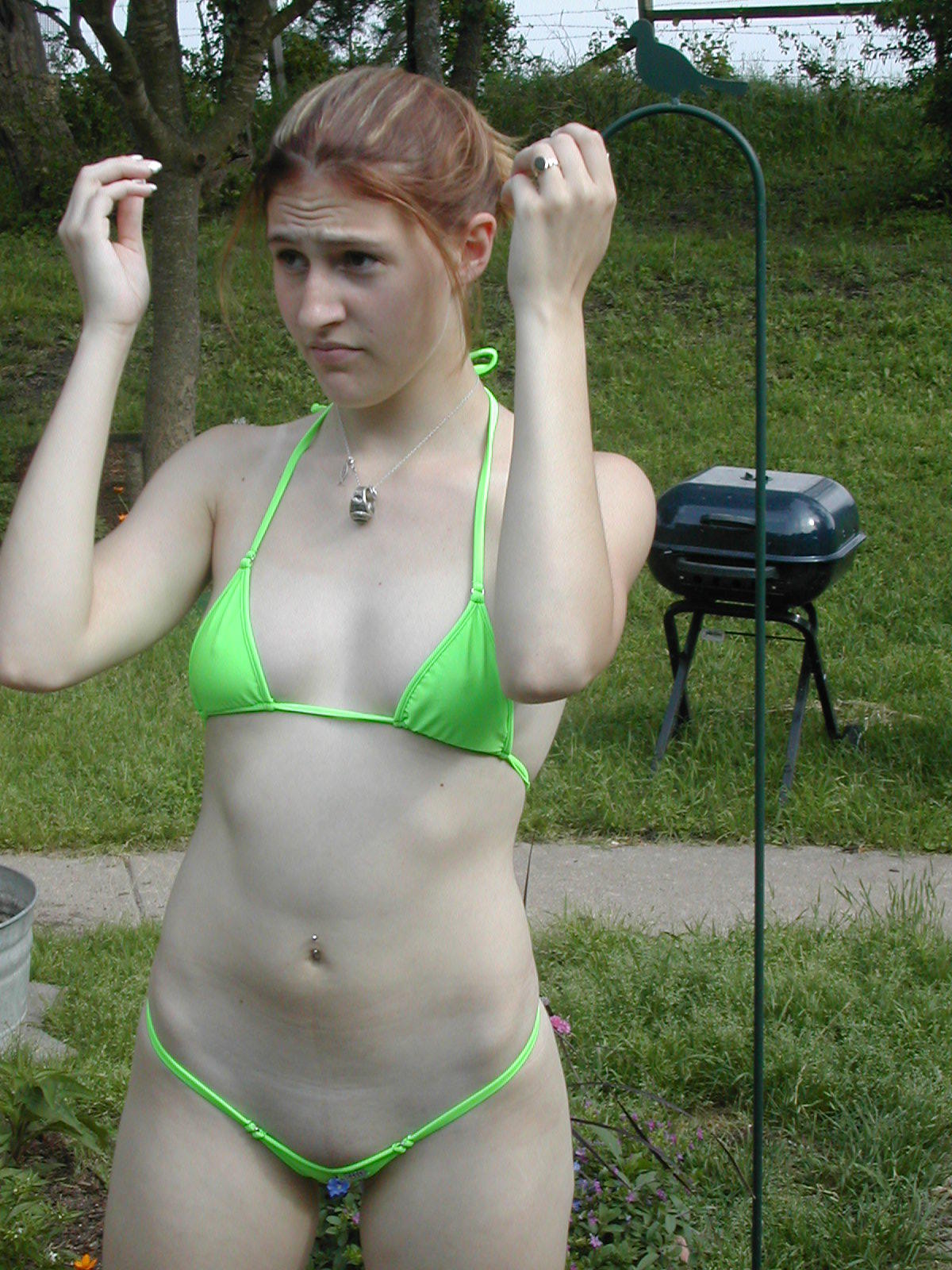 Woman with micro bikini